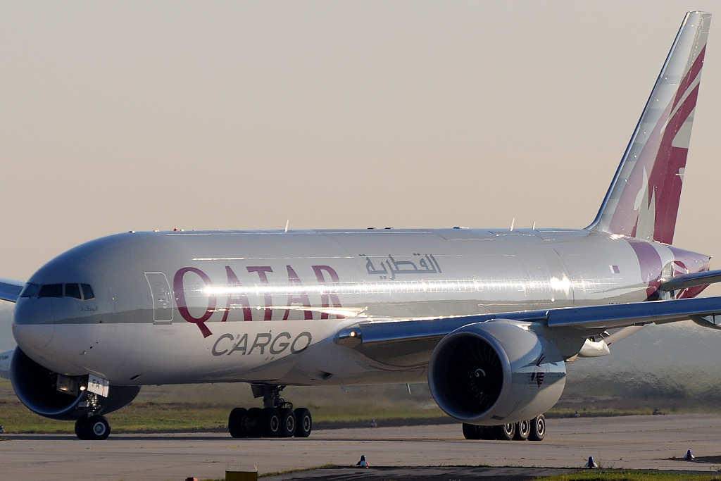 The first Qatar Airways Cargo Boeing 777F (A7-BFA) in Frankfurt